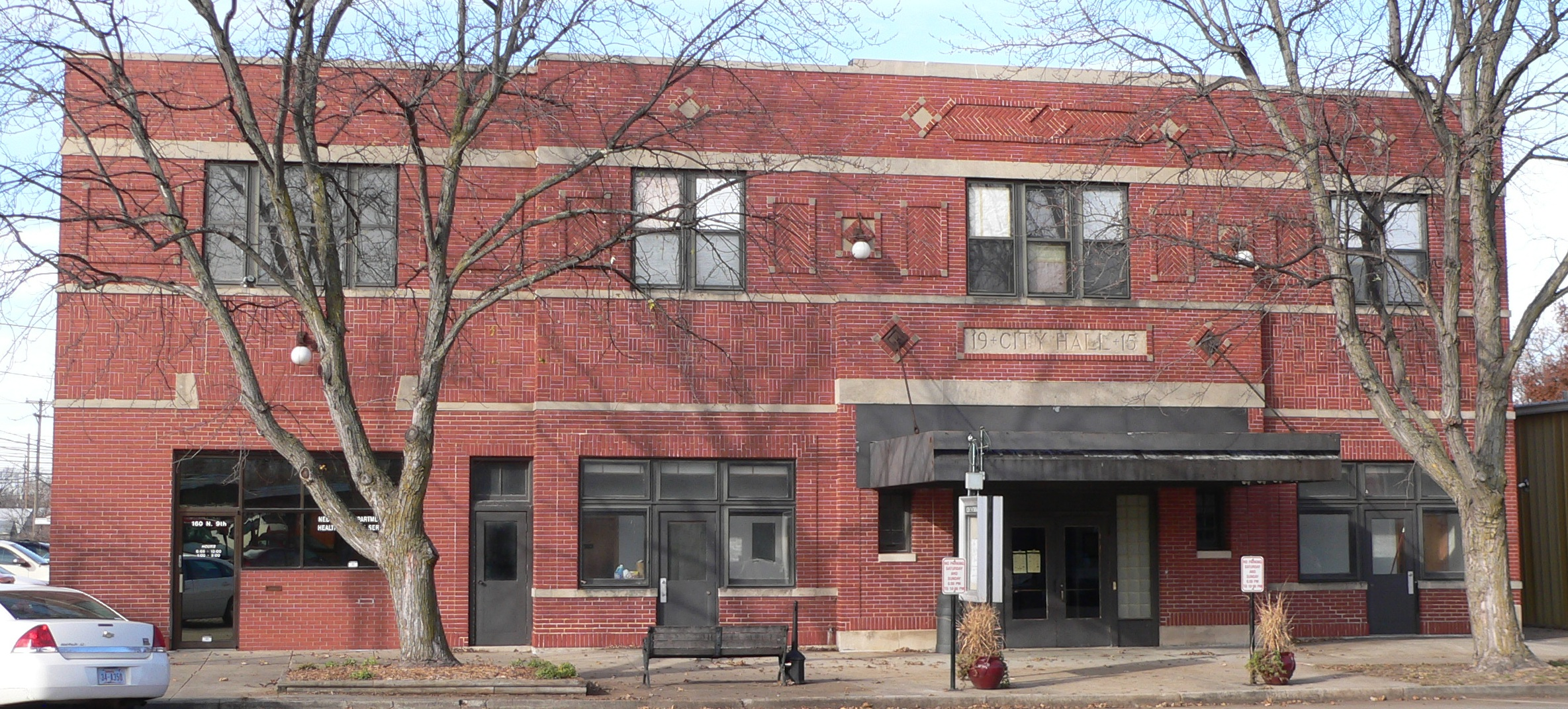 City auditorium at 160 N. 9th in Geneva, Nebraska, seen from the front (east). The building was constructed in 1915, and is listed in the National Register of Historic Places.